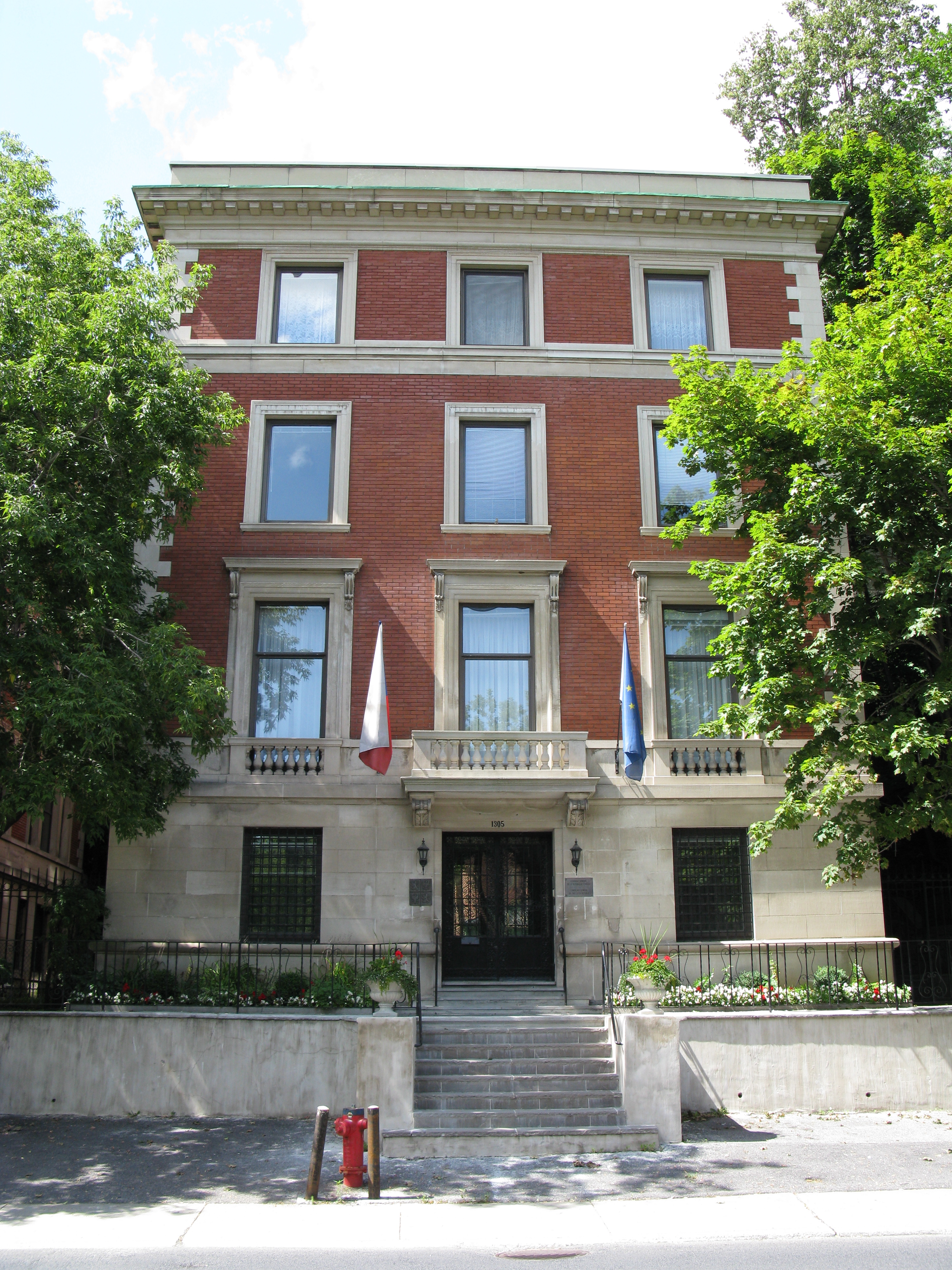 Consulate General of the Czech Republic in Montreal.